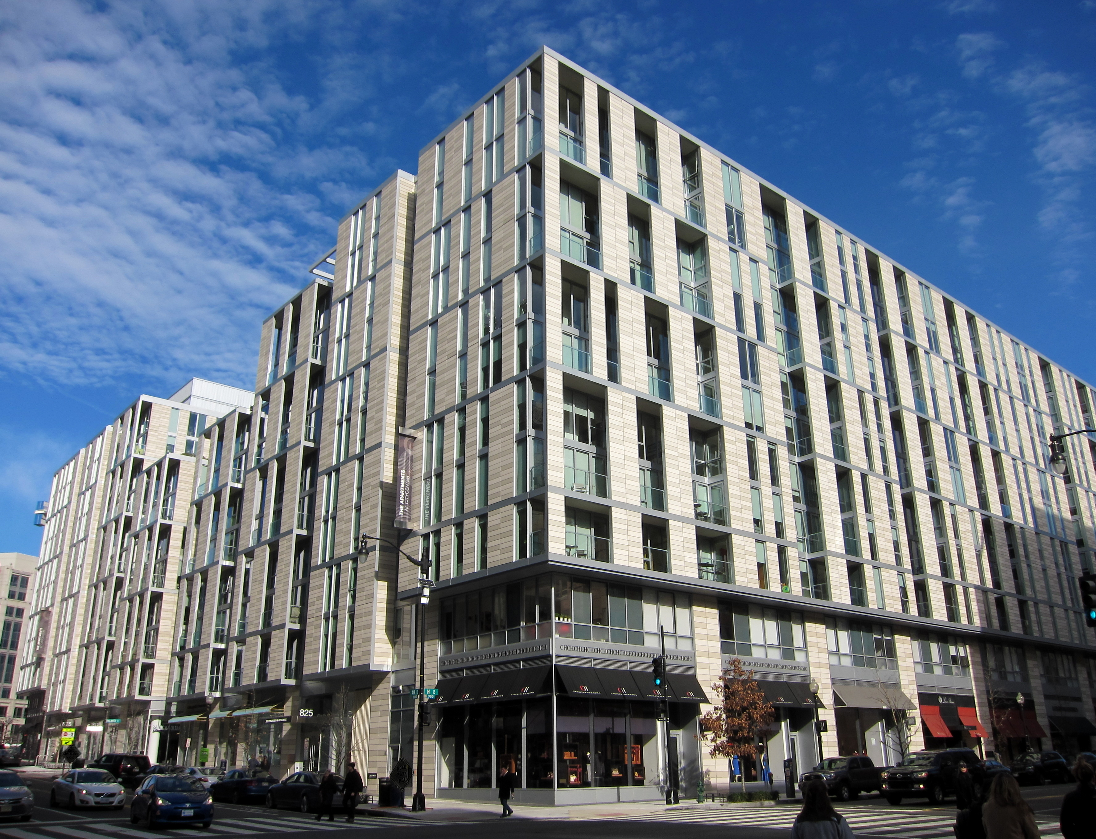 The Apartments at City Center - South Building located at 825 10th Street NW in the CityCenterDC complex in Washington, D.C. Designed by Shalom Baranes Associates, the building was completed in 2013.